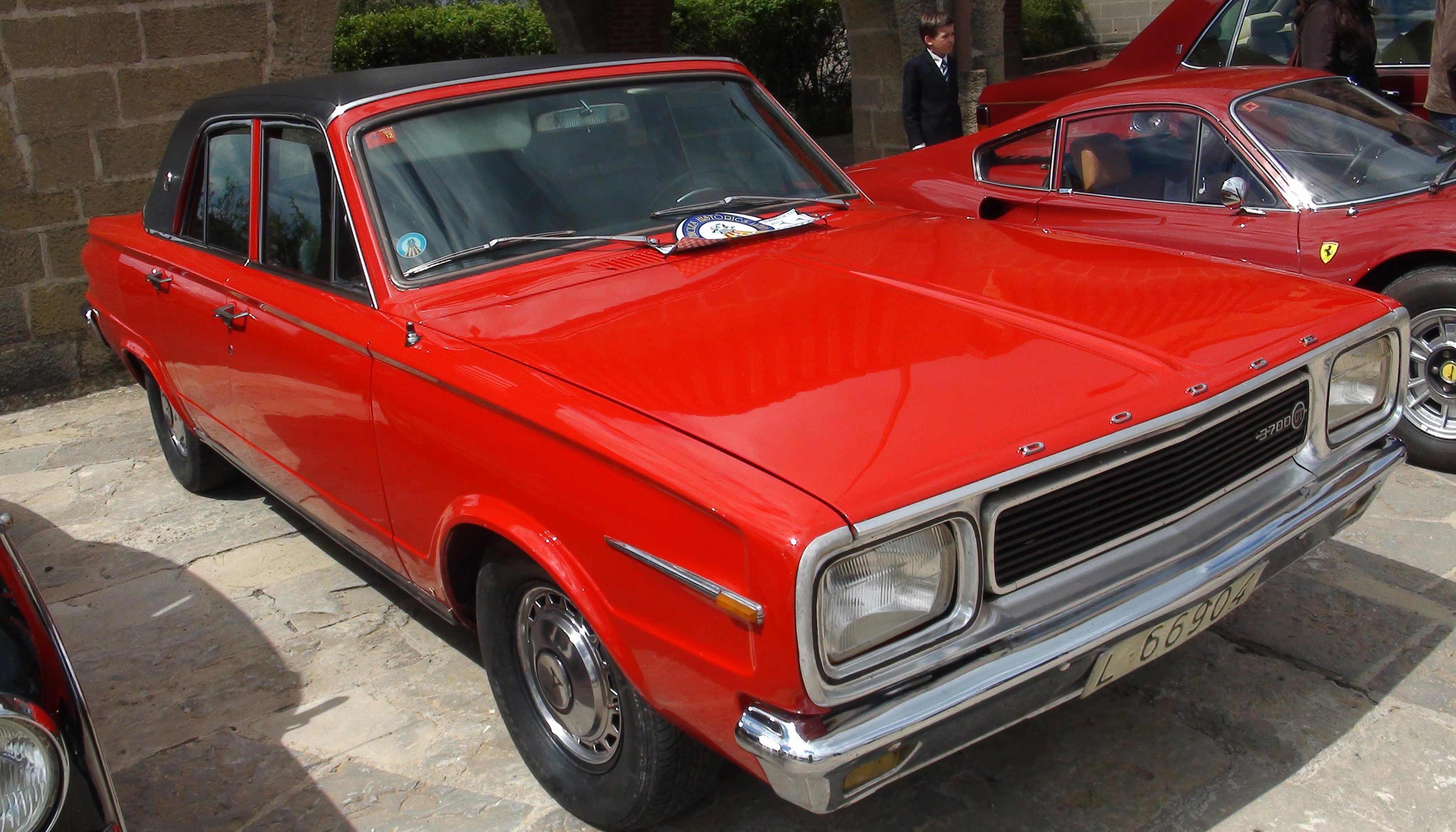 Dodge Dart 3700 GT at a classic car meet in Torreciudad